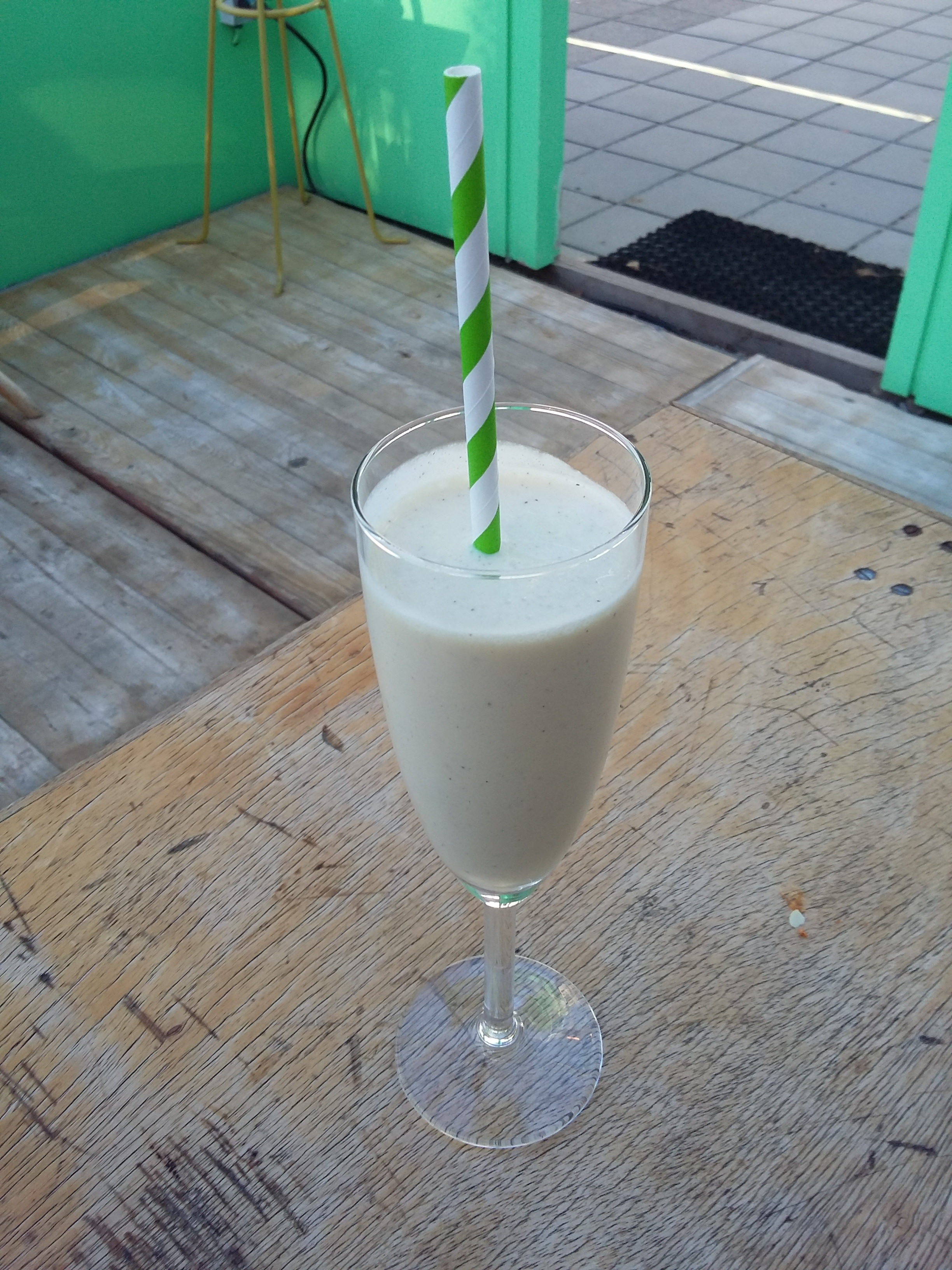 A sgroppino. This is a cocktail with ice cream and vodka.